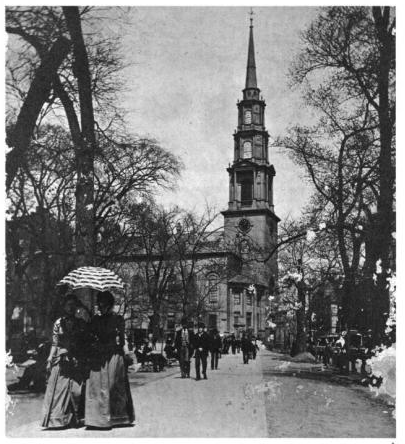 Boston Common, Park St. Church